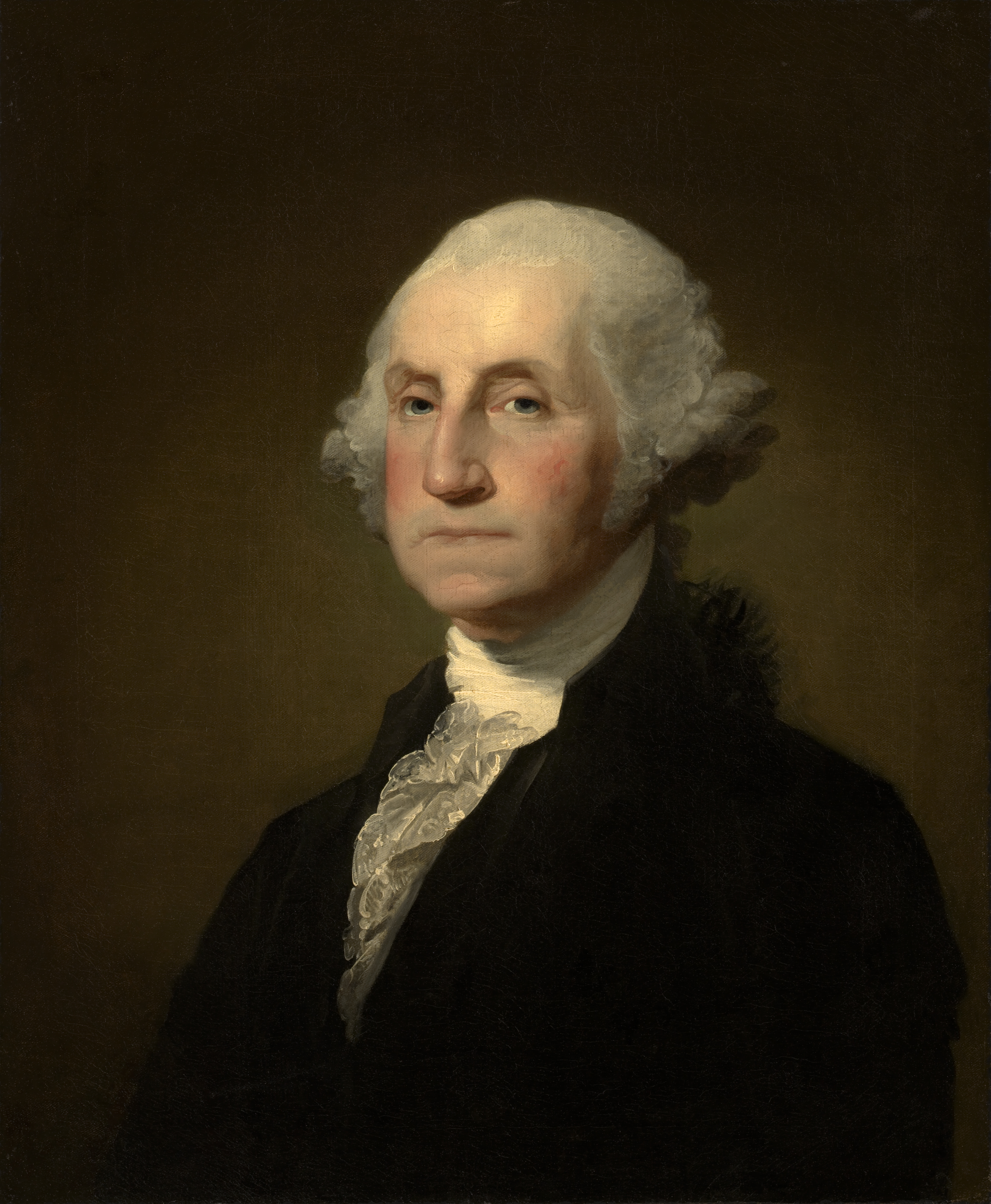 Portrait of George Washington (1732–99)